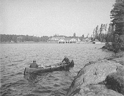 Paul Smith's [Hotel], Adirondack Mountains.